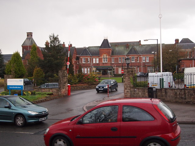 Nottingham - NG3